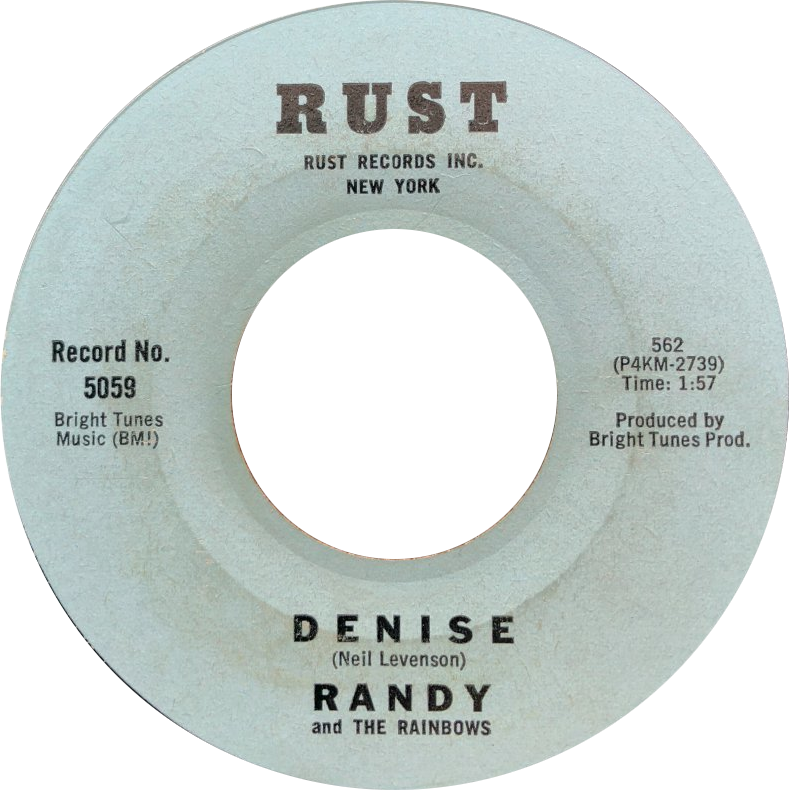 Blue Side-A label, one of the labels, of the US vinyl single release "Denise" by Randy and the Rainbows